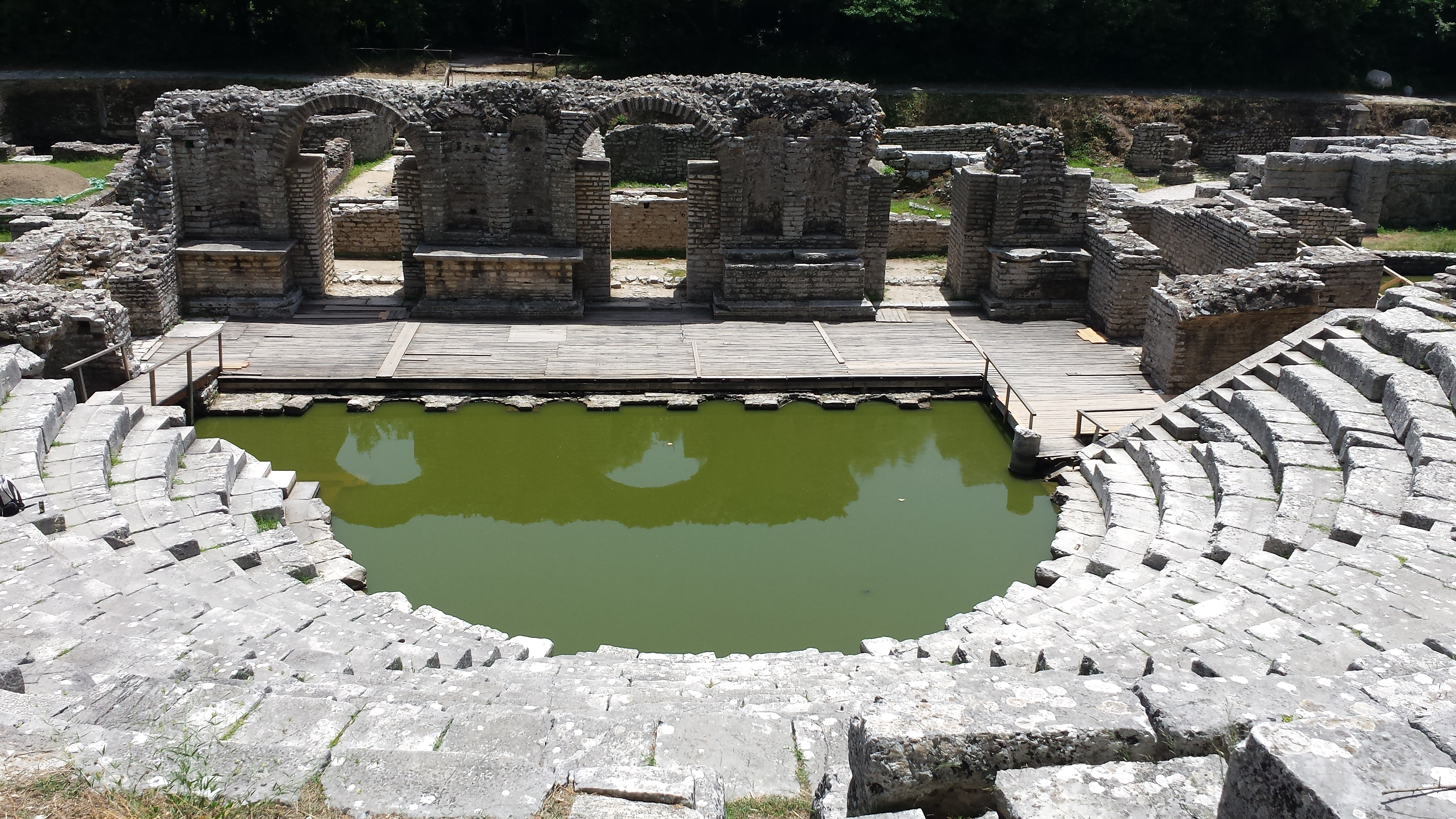 Buthrotum, Theatre